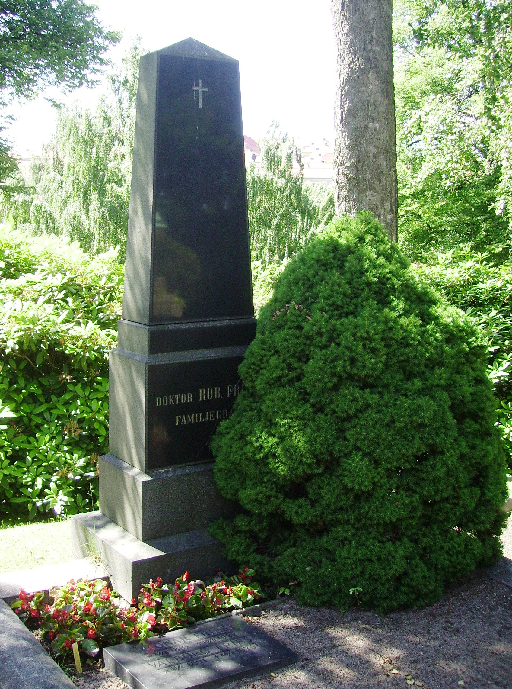 Picture of Robert Fries' grave at Östra kyrkogården in Gothenburg